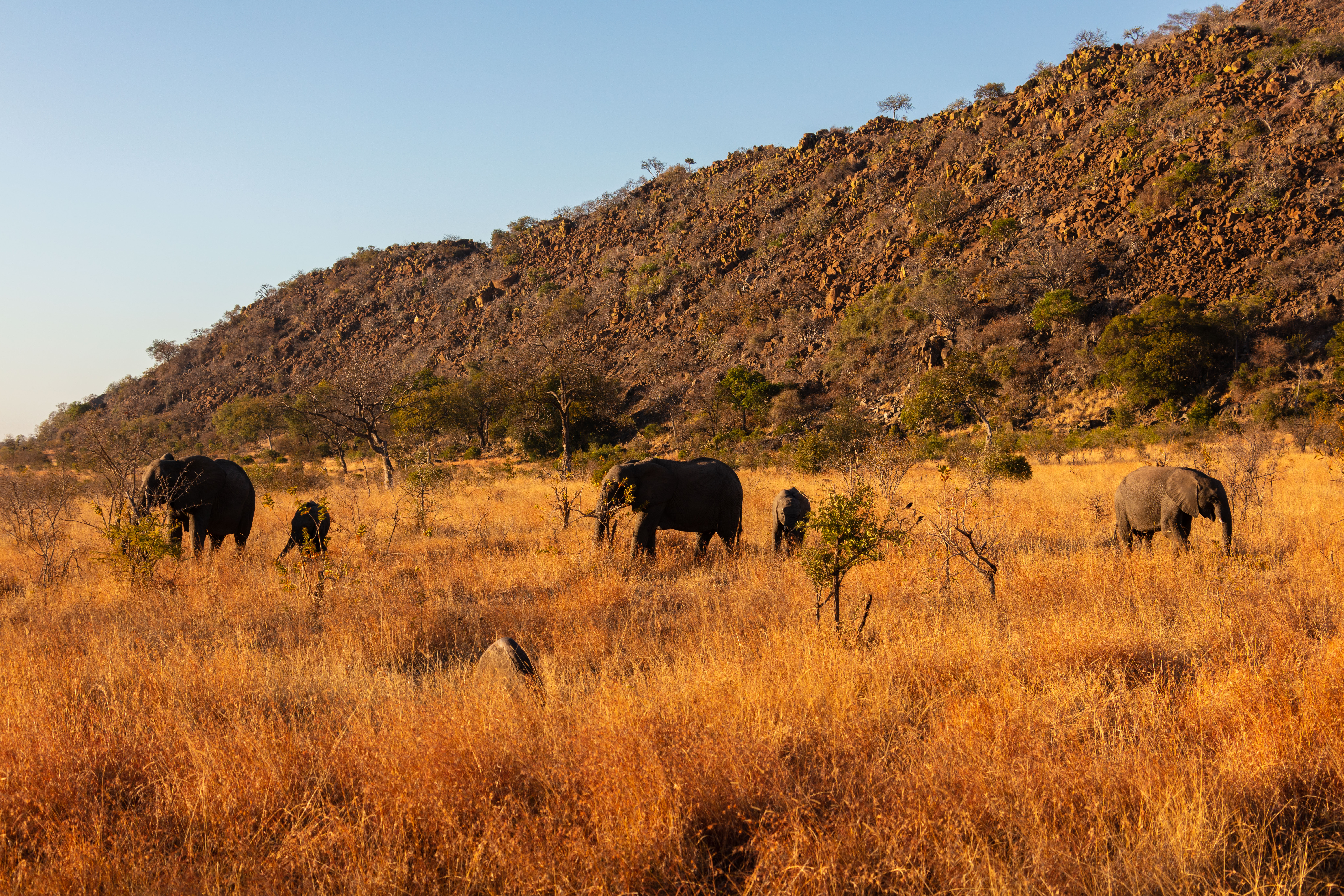 African bush elephants (Loxodonta africana), Kruger National Park, South Africa